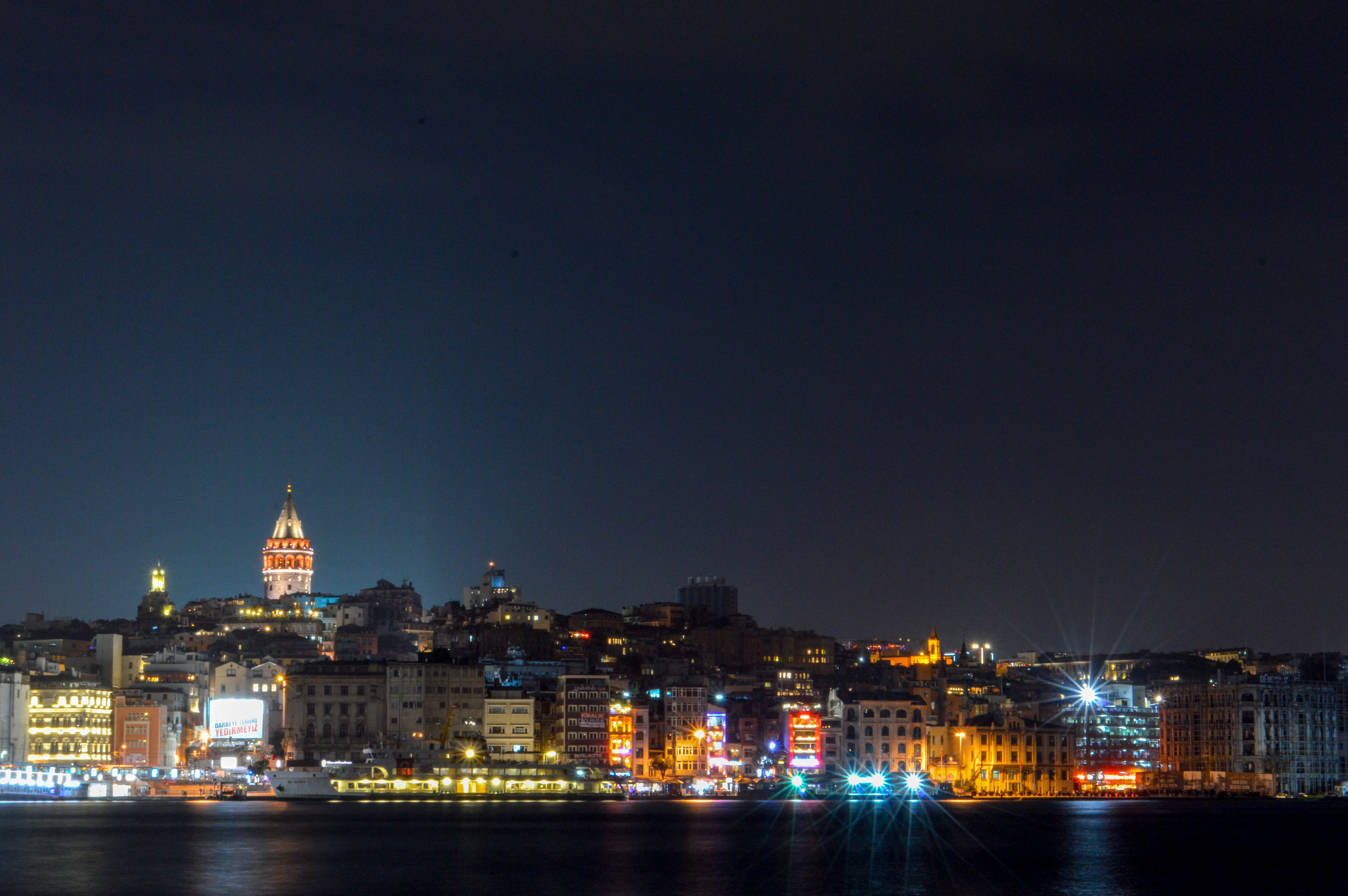 Karaköy at night